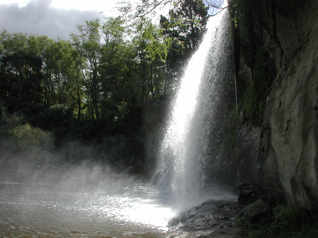 Rere Falls from the side.